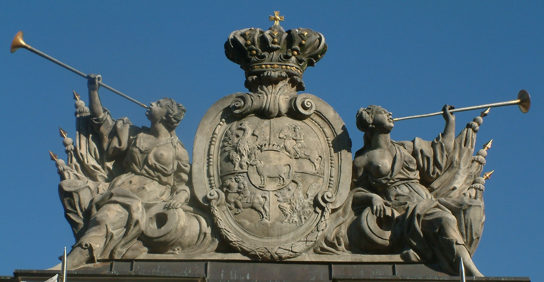 Coat of Arms of Polish-Lithuanian Commonwelth from times of regin of Stanislaus Augustus Poniatowski, Guard House, Poznań